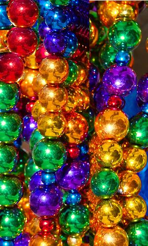 Stylized image of Mardi Gras beads, with metallic paint on plastic bead necklaces. File is in JPEG format for quick display, due to auto-resizing as a smaller file. Source: hand-edited as stylized image.